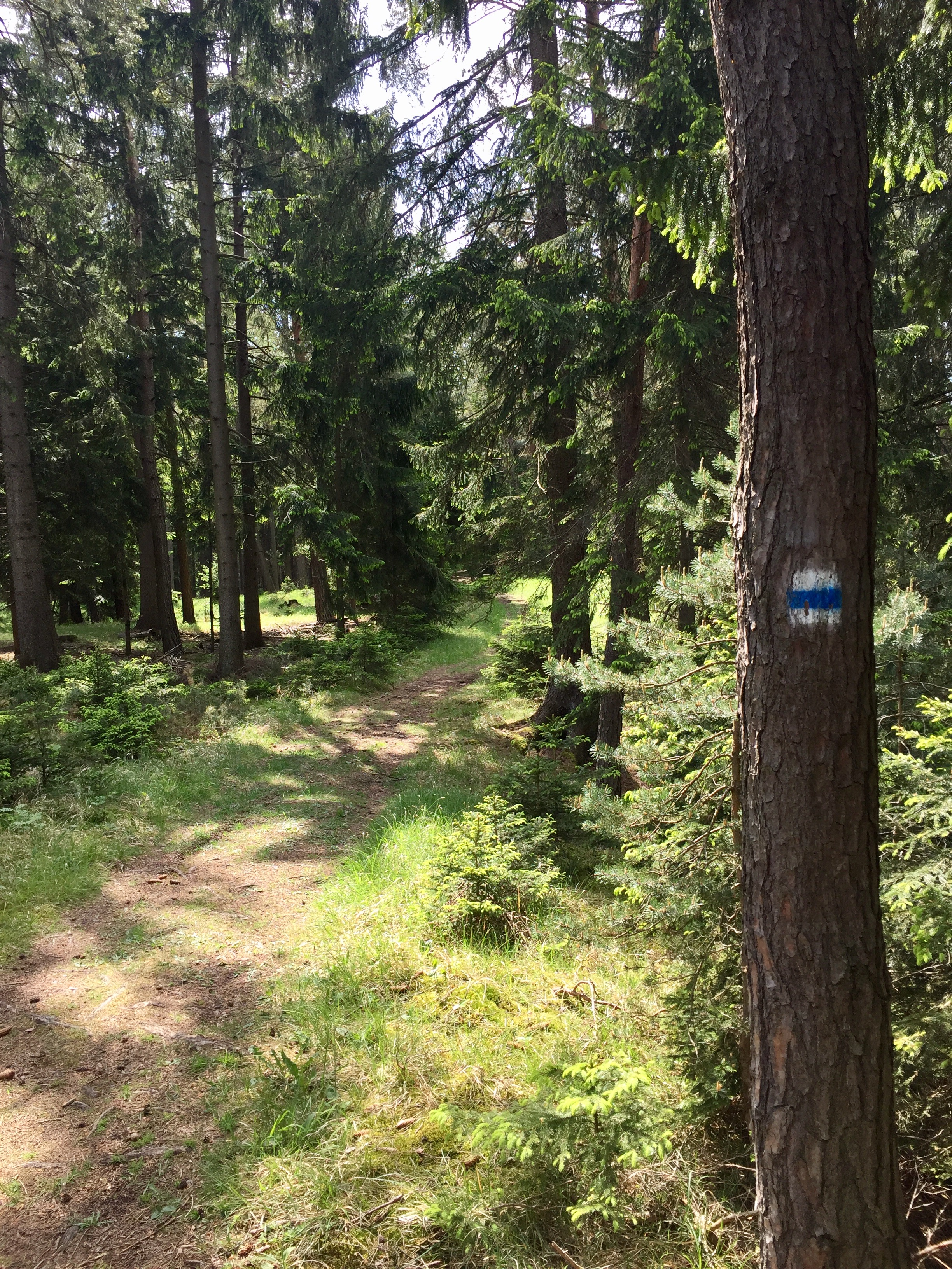 hiking track from Arnstadt to Ilmenau